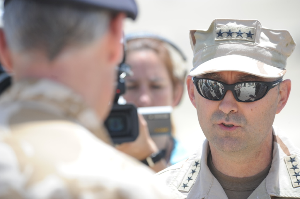 100527-F-5561D-001 Kabul - Admiral James G. Stavridis, Commander, U.S. European Command (USEUCOM) and NATO's Supreme Allied Commander Europe (SACEUR), greets Brig Gen Simon Levy ,Assistant Commanding General - Combined Training Advisory Group - Army (CTAG-A) after an Afghan National Army demonstration May 27, 2010. Admiral Stavridis visited Kabul Military Training Center to see a demonstration on skills soldiers learn. (U.S. Air Force photo/ Senior Airman Matt Davis)